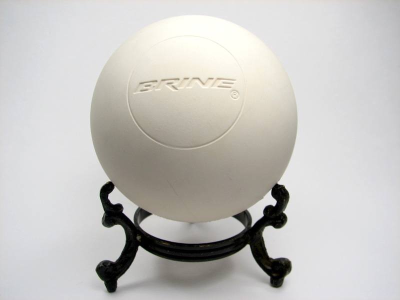 A Brine men's lacrosse ball.